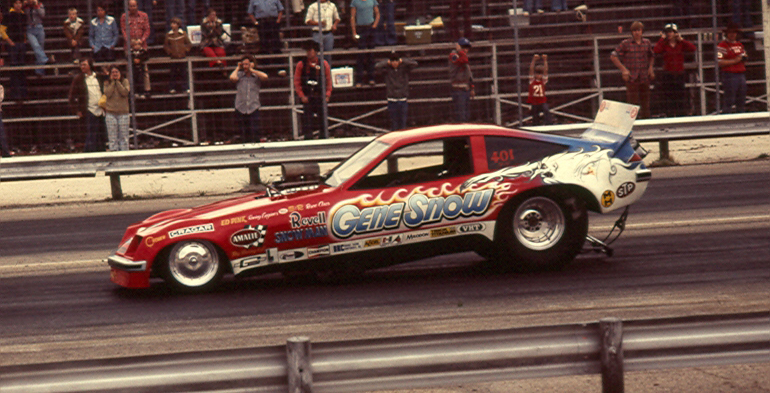 Gene Snow, Green Valley 1975. Snow was ranked #26 on NHRA's Top 50 drivers.Gene Snow